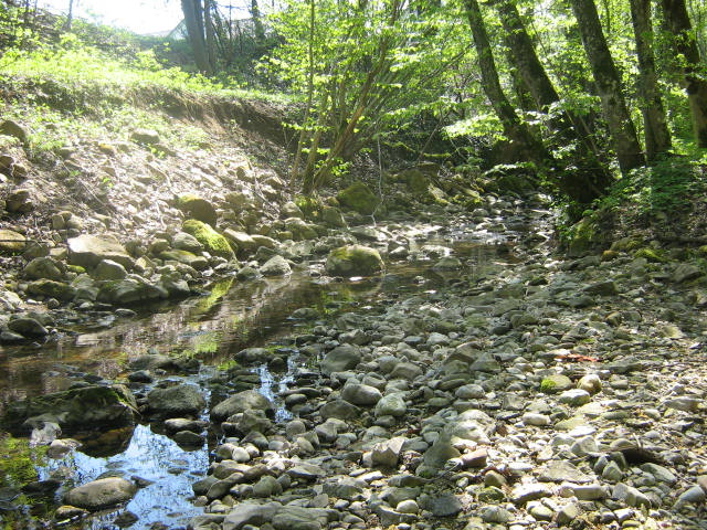 This little river (to lake Wallersee) divides the municipalities of Eugendorf (right side) and Henndorf (left side)